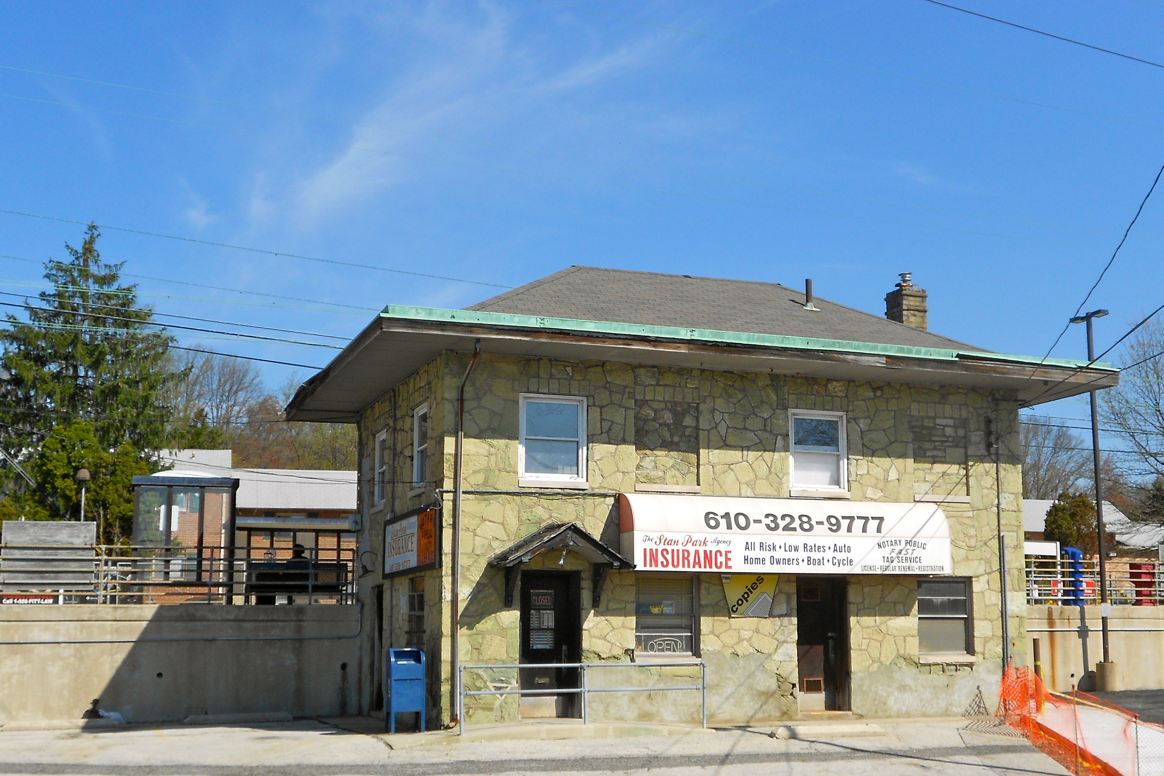 The Secane SEPTA station on the Media/Elwyn Line in Delaware County, Pennsylvania